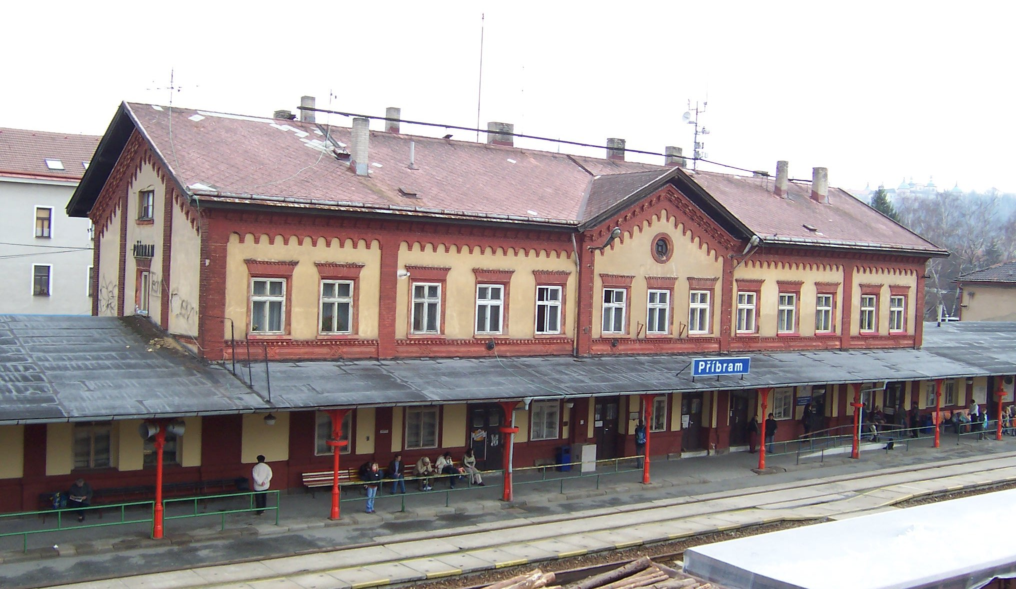 Train station in Příbram, Czech Republic.